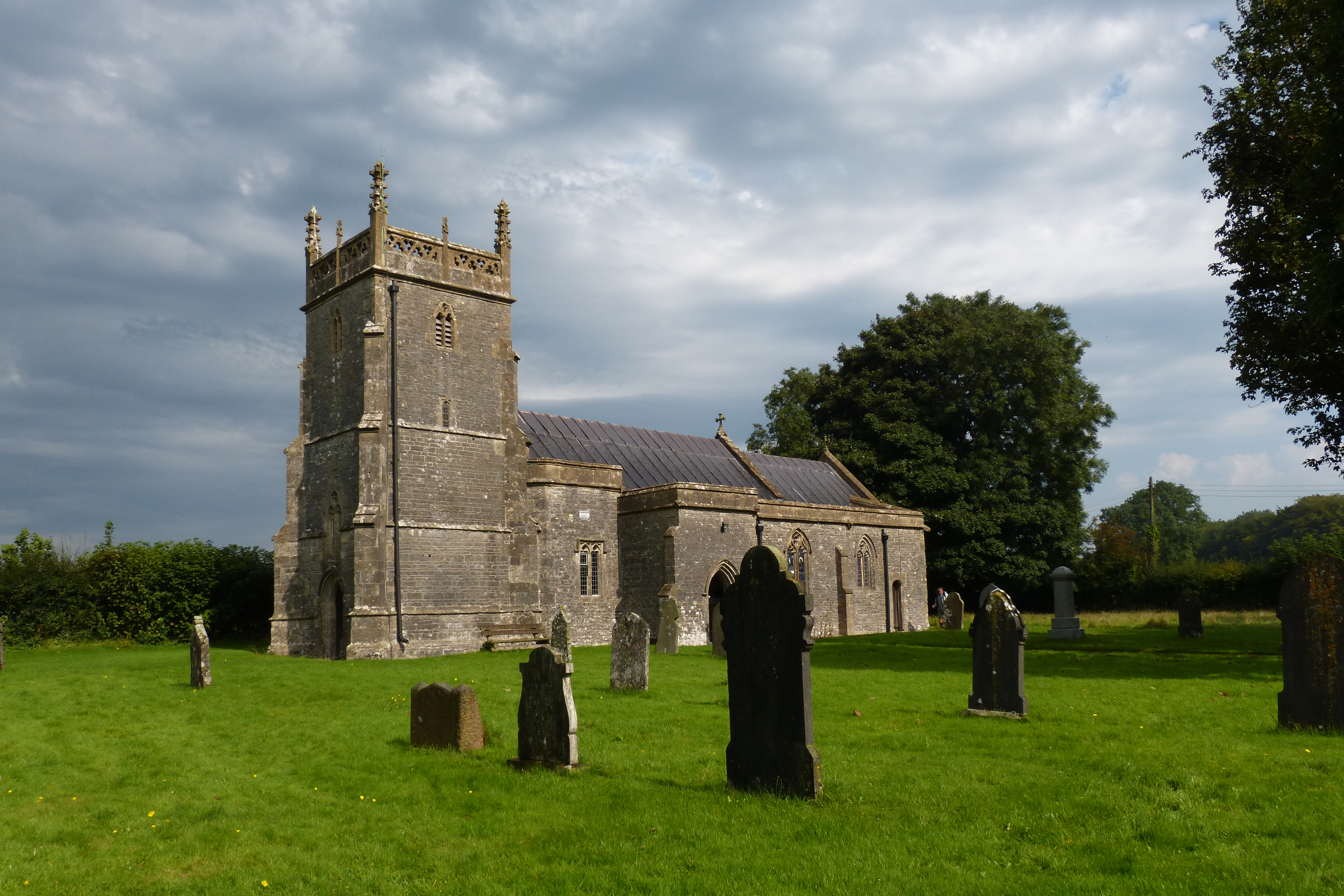 Church of St Lawrence, Priddy Wikidata has entry Q5117470 with data related to this item.